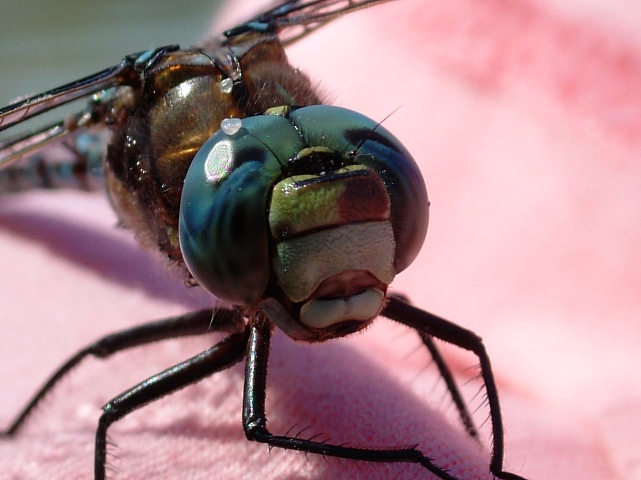 Front view of a dragonfly